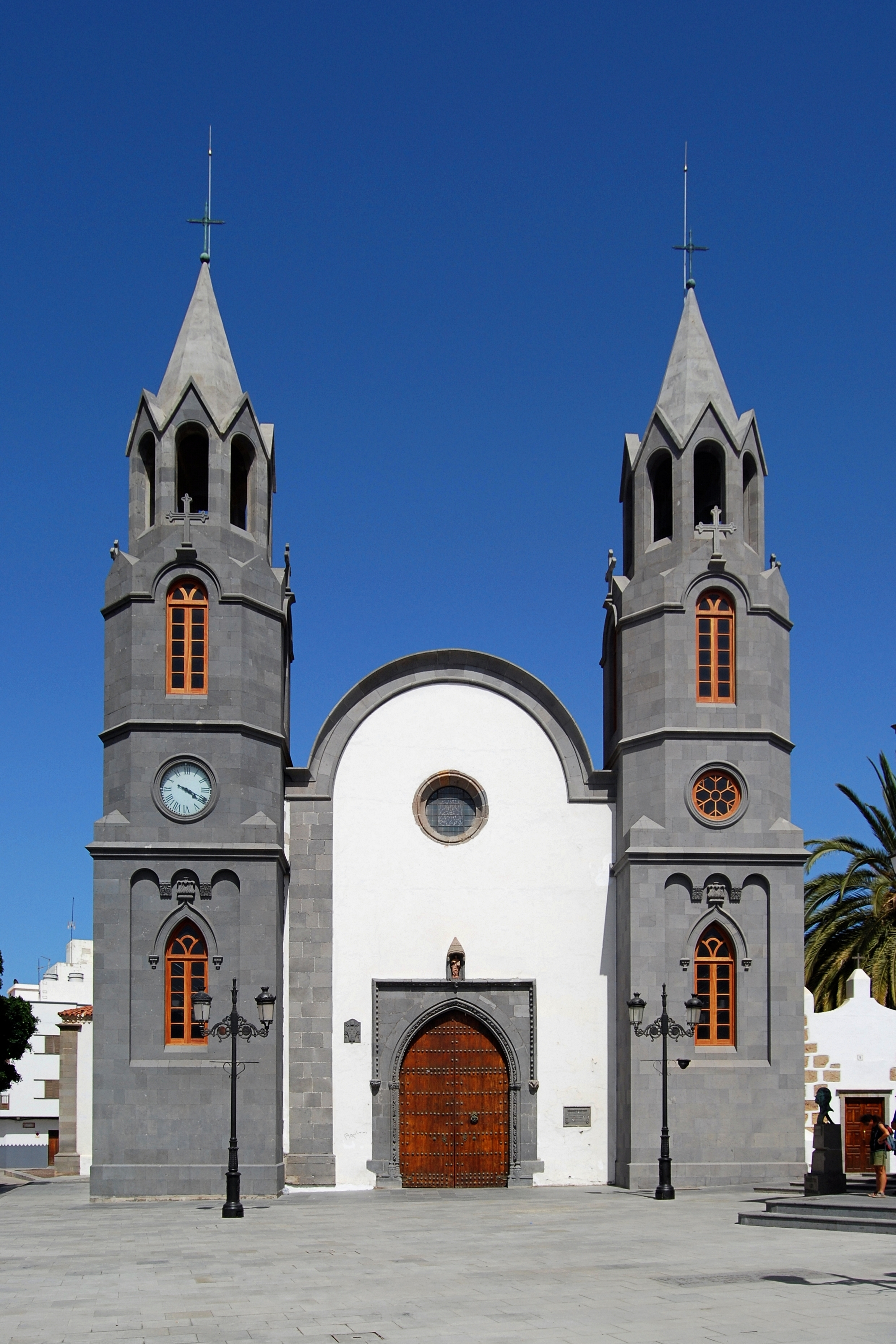 Iglesia de San Juan Bautista in Telde, Gran Canaria.